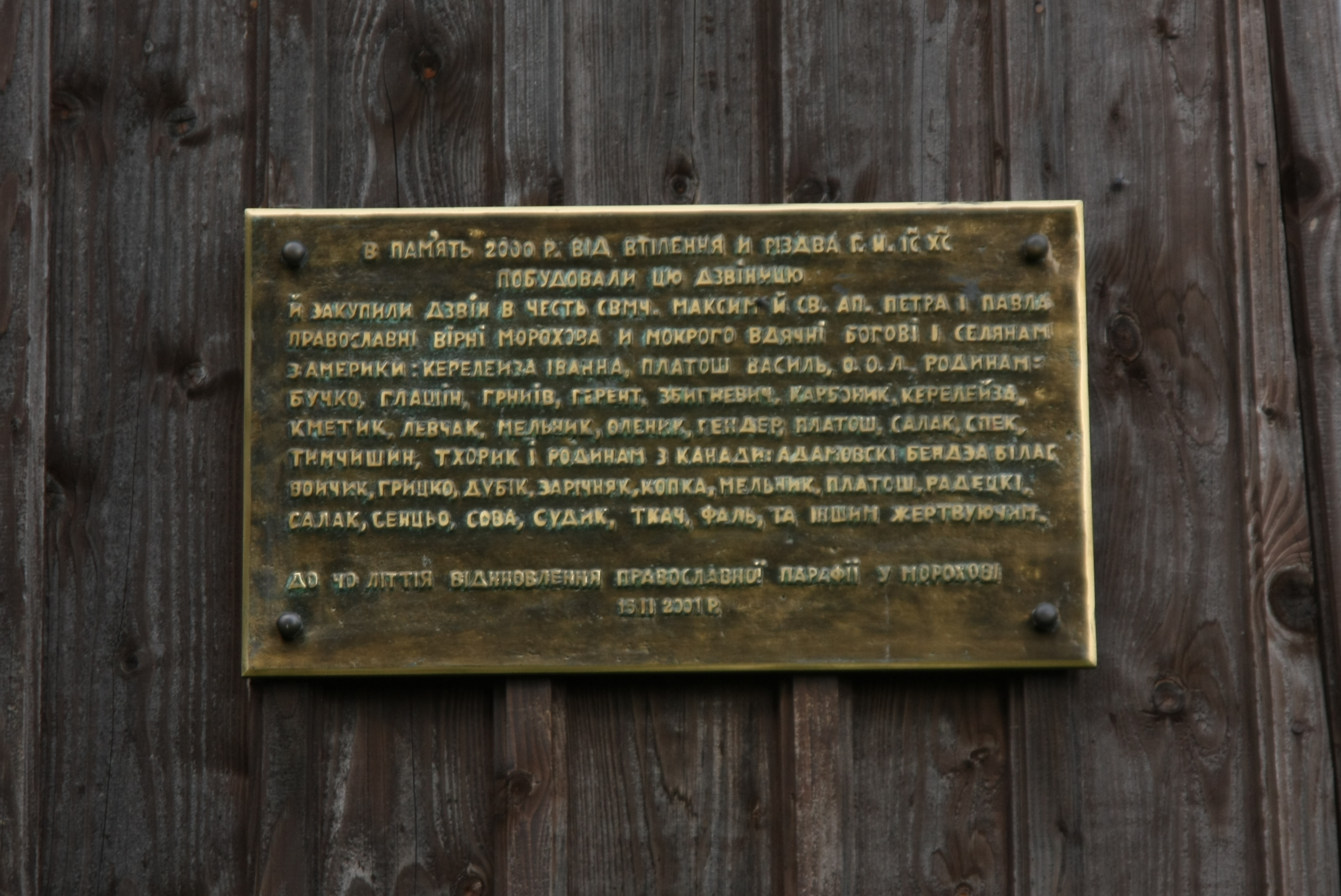 Bell tower in Morochów.